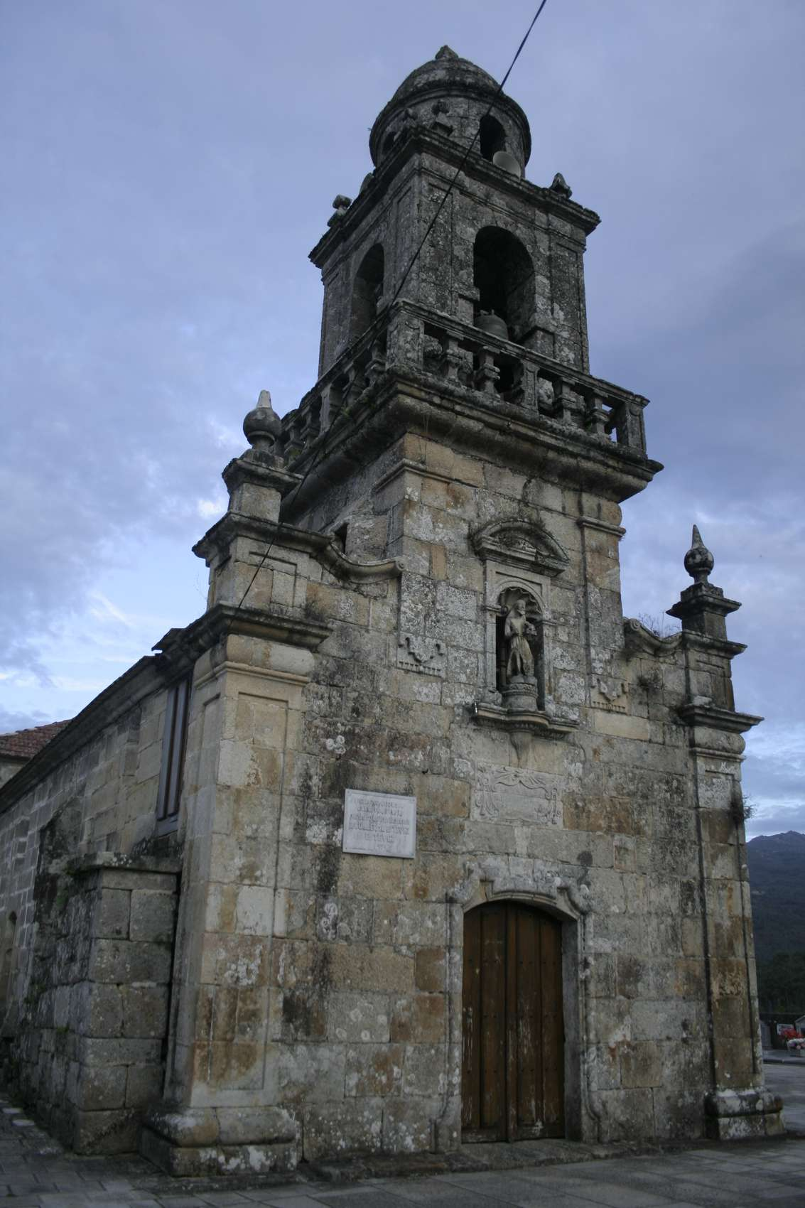 Church of San Xoán de Crespos. Padrenda (Spain)